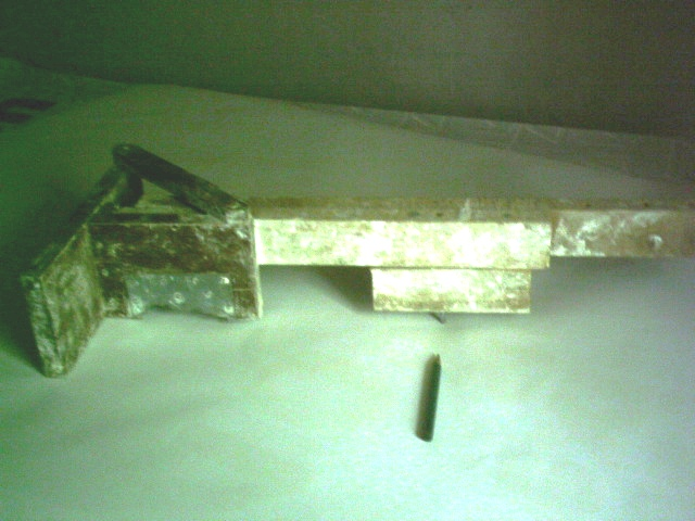 stucco profile template to rotate or move